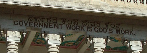 The motto "Government Work Is God's Work" above the entrance to the Vidhana Soudha in Bangalore, India, on January 14, 2014. ಕನ್ನಡ: "ಸರ್ಕಾರದ ಕೆಲಸ ದೇವರ ಕೆಲಸ." ವಿಧಾನಸೌಧ.